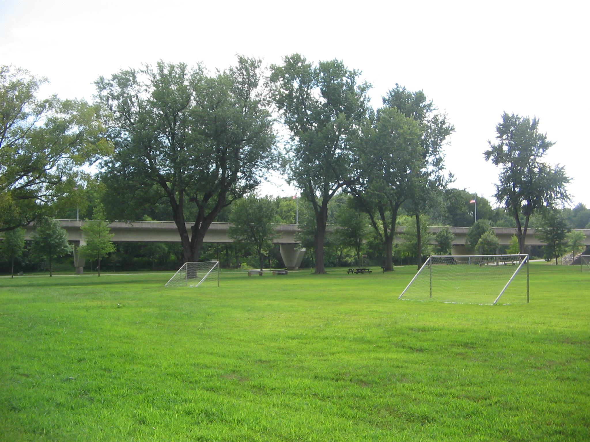 Soccer Fields and PA 642 Bridge in Milton State Park, in Milton, Pennsylvania, United States